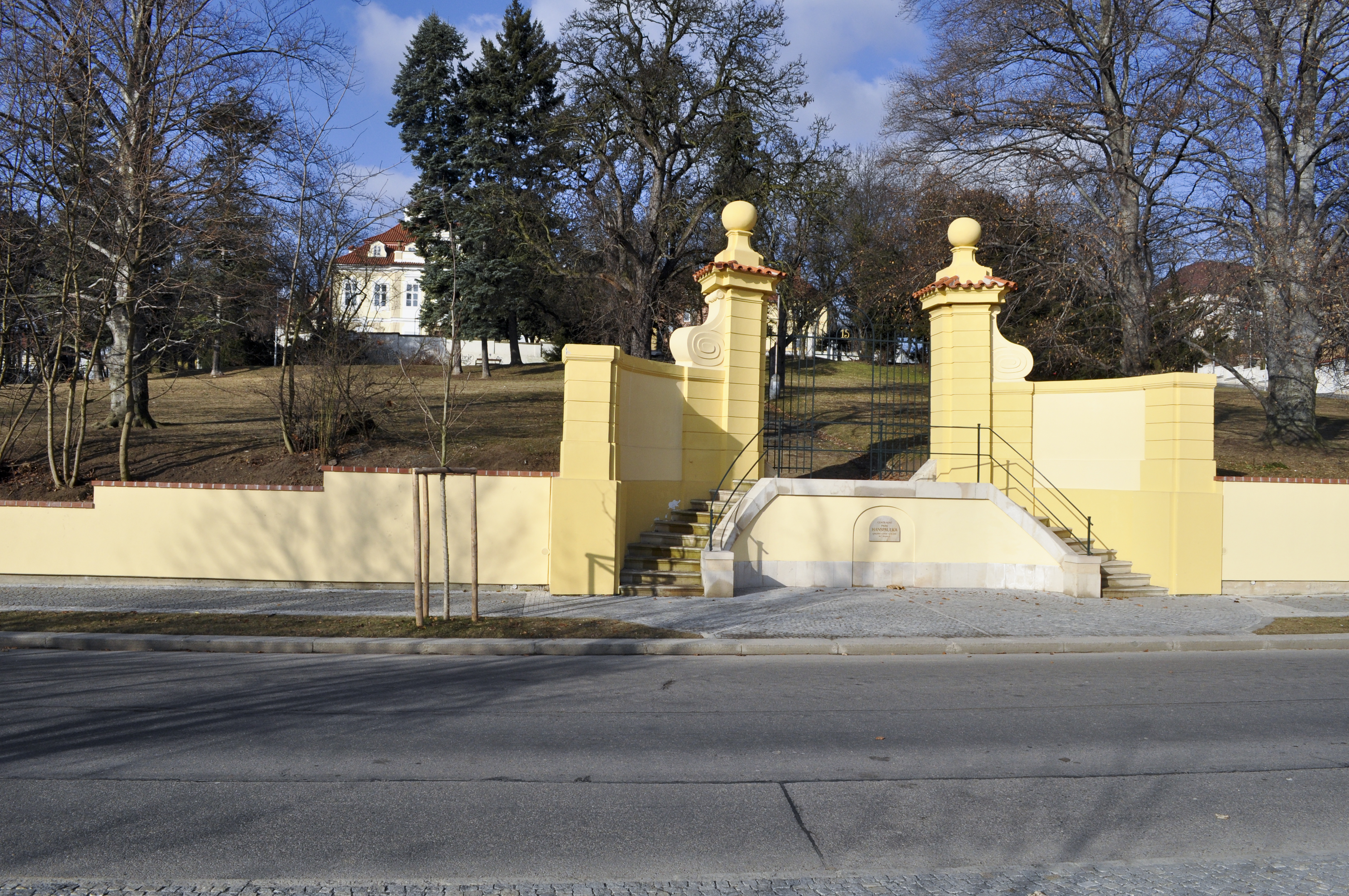 Entry gate of the Hanpaulka Mansion